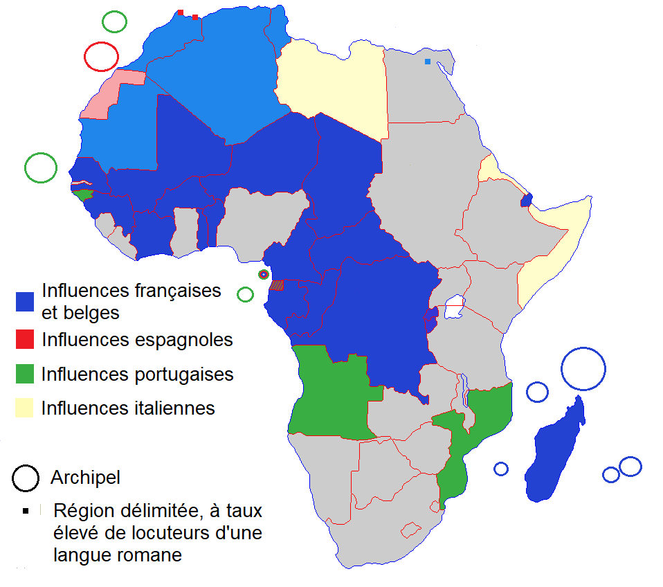 Countries shown on this map are those which carry a Latin language as official language or culture.